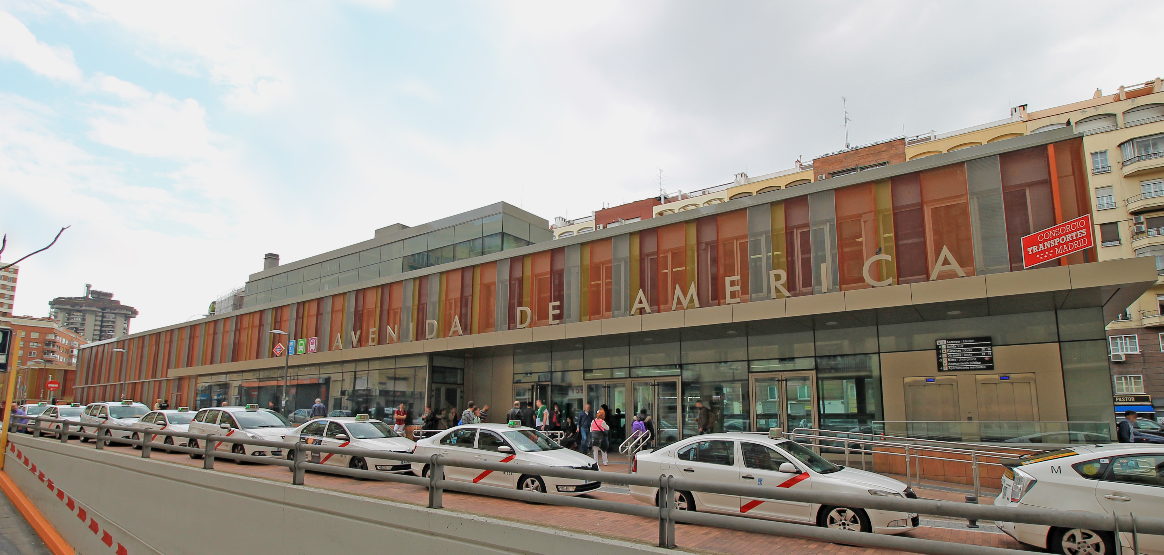 Entrance of Avenida de América station in Madrid (Spain).